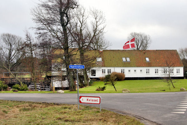 Mill, Nygaards Mølle, located close to the danish village Kvissel, app. 10 km west of Frederikshavn.